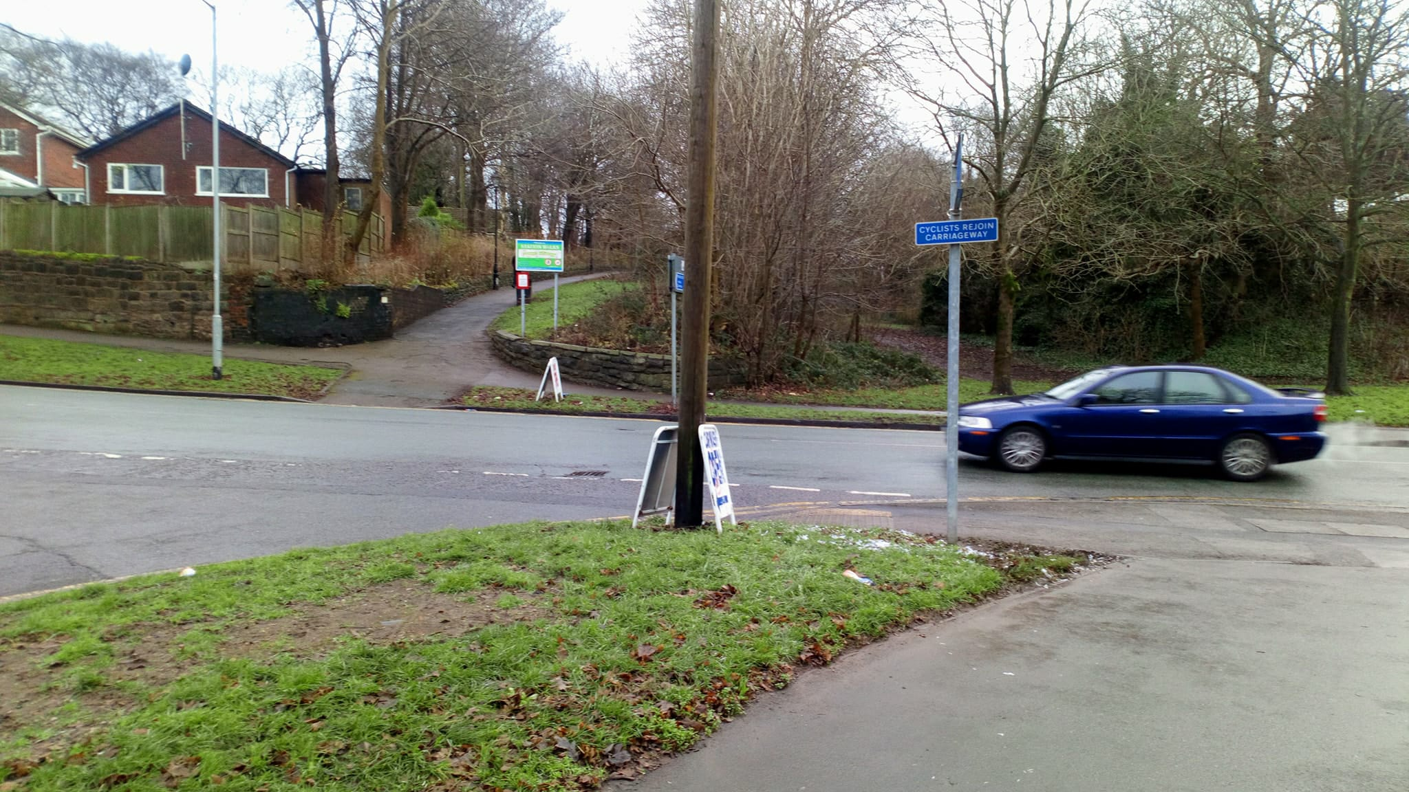 Another photo of mine.